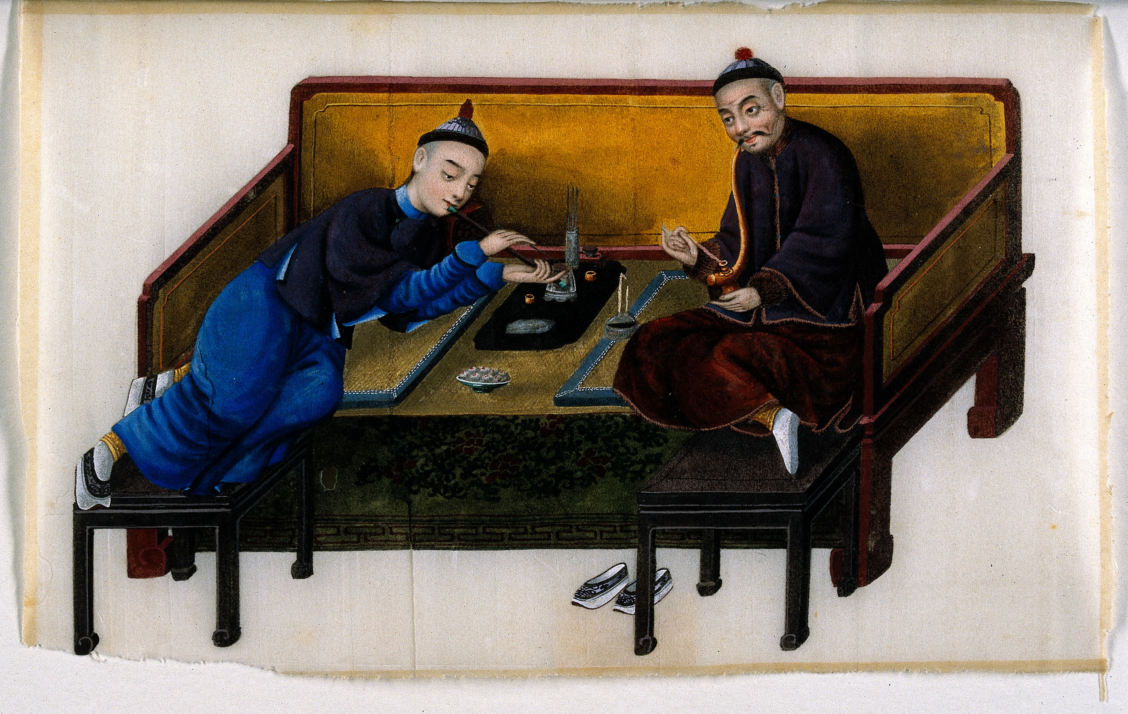 Two wealthy Chinese opium smokers. Gouache painting on rice-paper, 19th century. Iconographic Collections